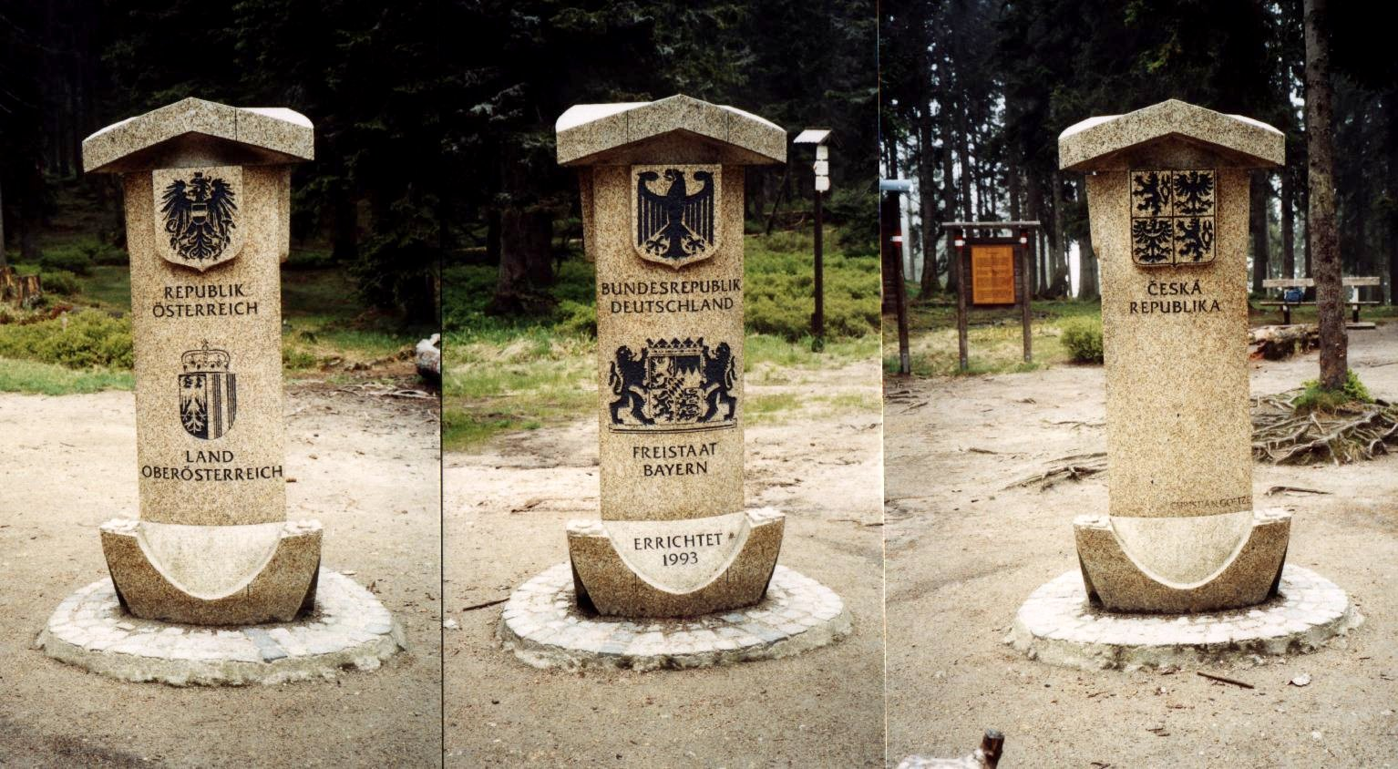 Border triangle where Germany, Austria and Czechia meet